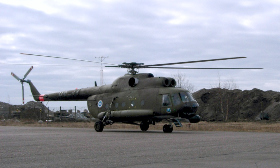 A Finnish Mil Mi-8 transport helicopter in Hernesaari, Helsinki, in 2005.